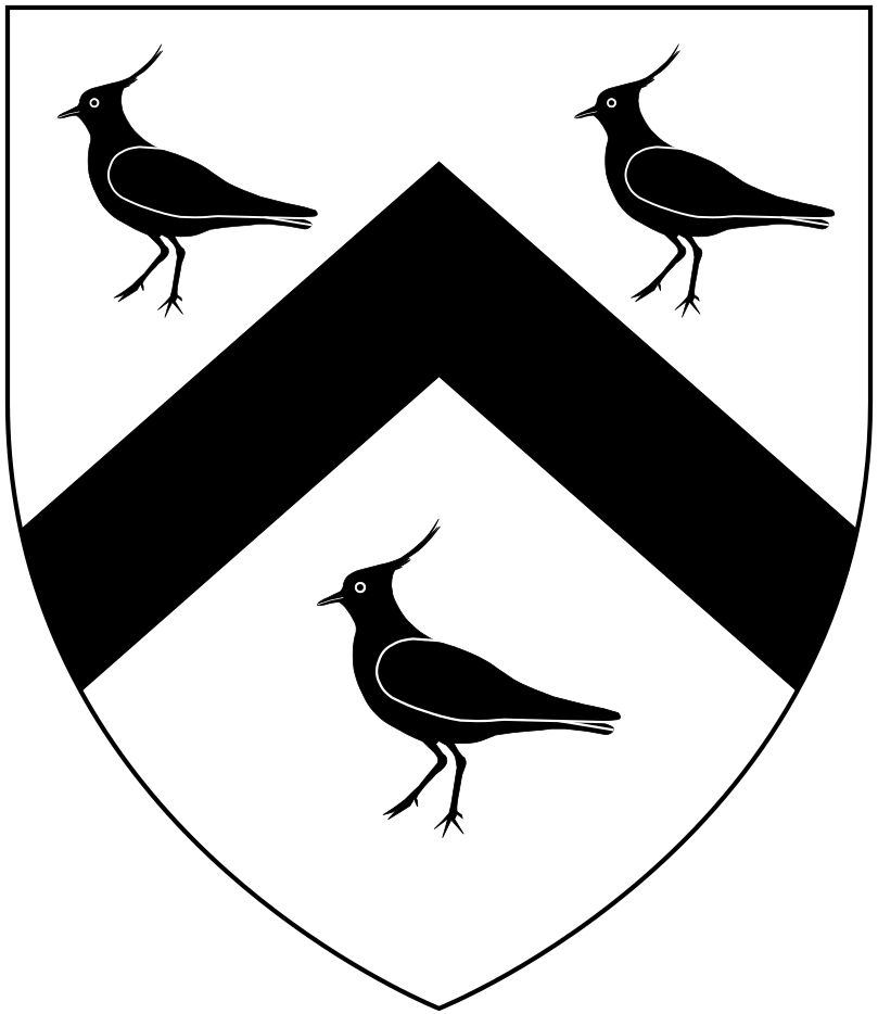 Arms of John Twynyho (d.1485) of Cirencester, Gloucestershire: Argent, a chevron between three lapwings sable. (Source: Chitty, Heralds' Visitation of Gloucestershire 1623, pp.262-3, "Twinyho") As seen on the "Founder's Tomb" in Fairford Church, Gloucestershire, on which survive the monumental brasses of his daughter Alice Twynyho and her husband John Tame (d.1500), builder of Fairford Church. Artwork own work of Lobsterthermidor Lapwings based on illustration in Hayman & Burton, Birdlife of Britain, 1976, p.183